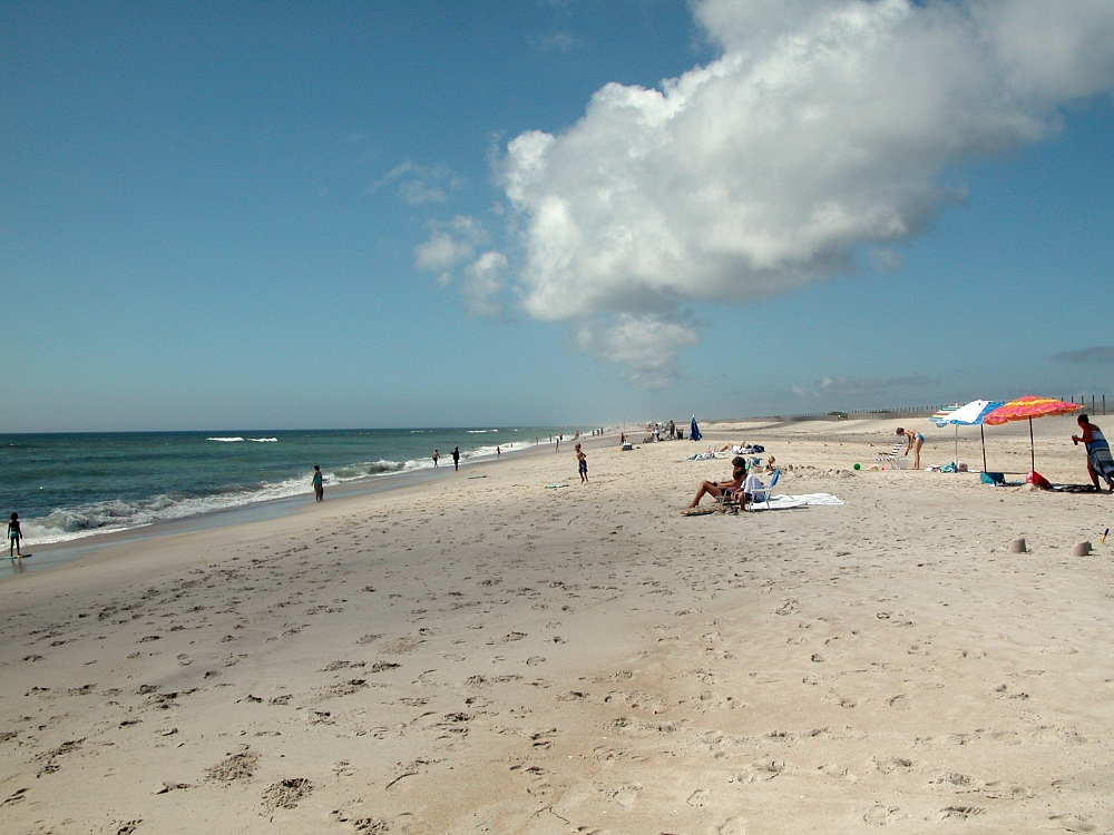 Beach, Assateague State Park, Maryland, USA